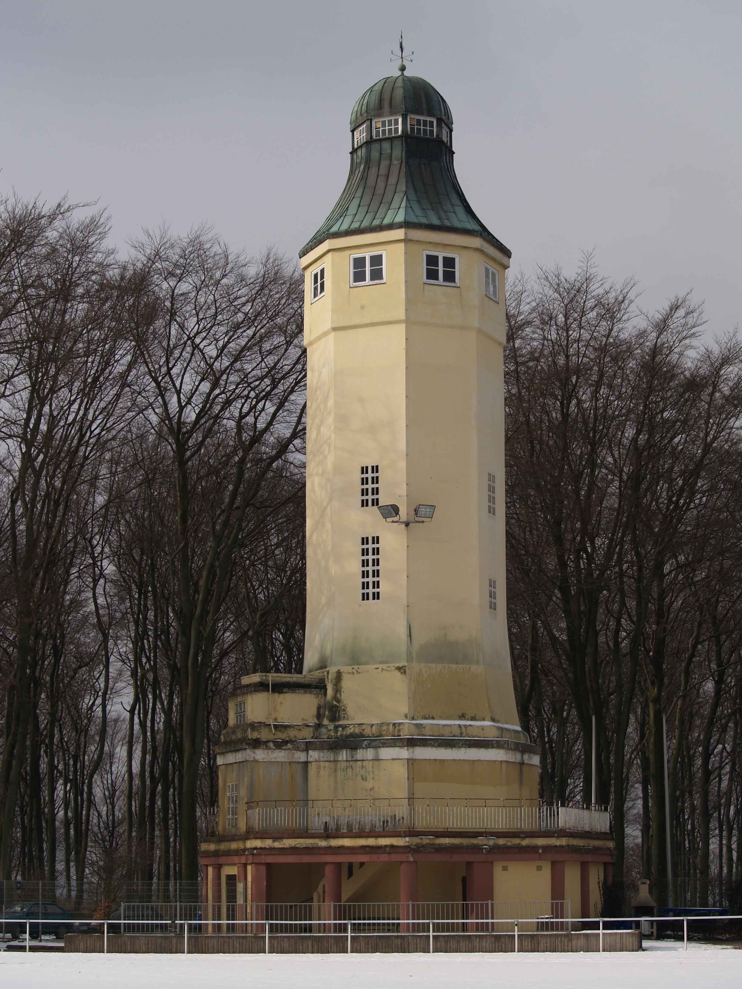 Watertower of former coal mine Mont Cenis in Herne from SE